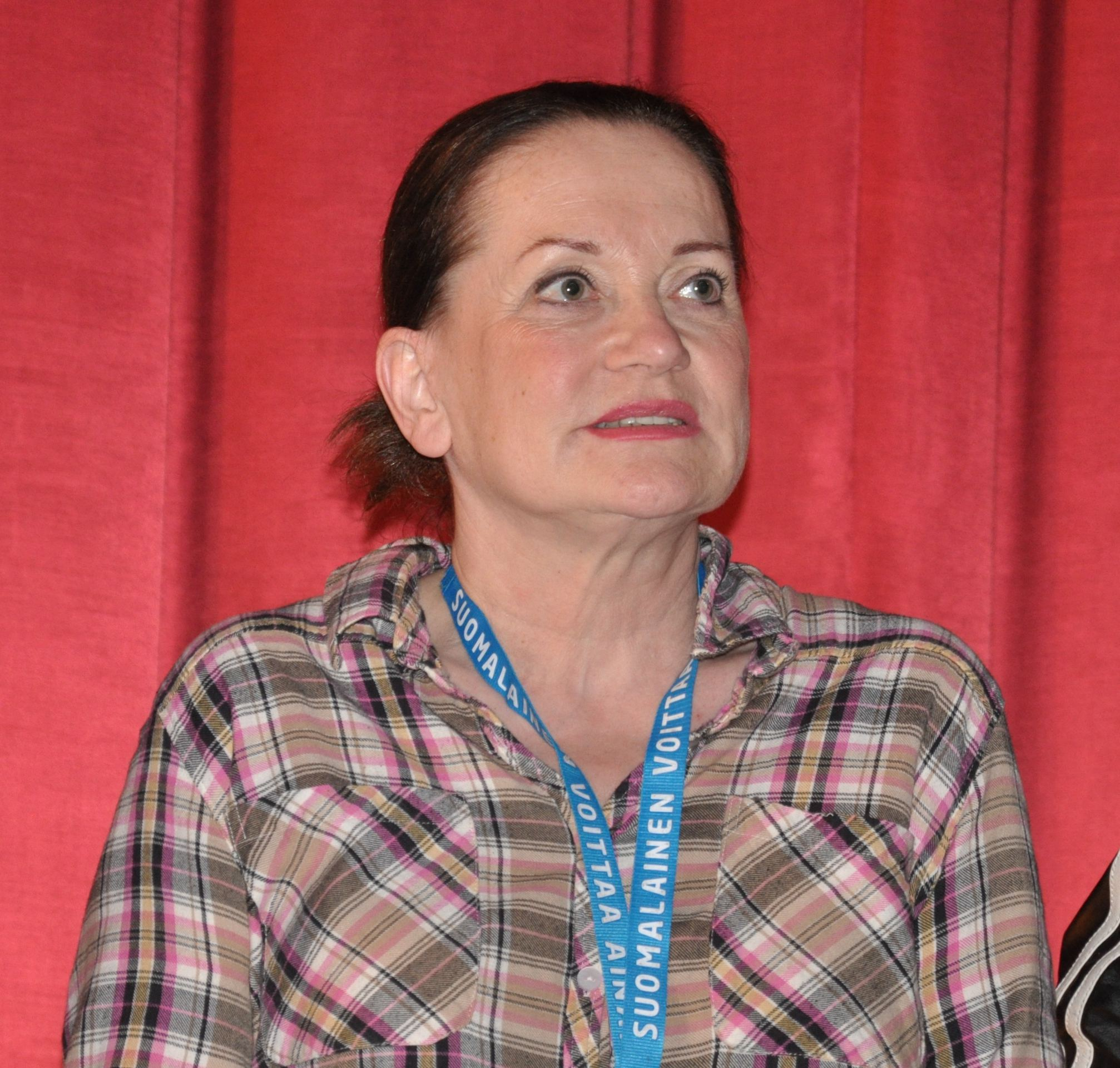 Finnish actress Rea Mauranen at Midnight Sun Film Festival in Sodankylä, 2012.